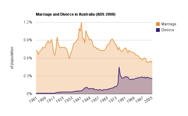 Marriage and divorce rates expressed as percentages of the Australian population at the time. Based on statistics from the ABS 2008